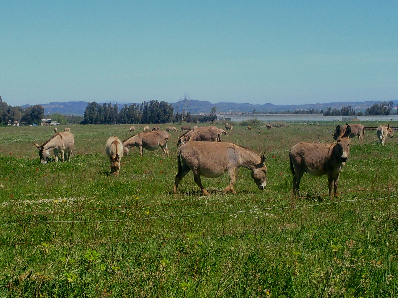 Donkeys of race "Asino Sardo" from Sardinia (Italy)